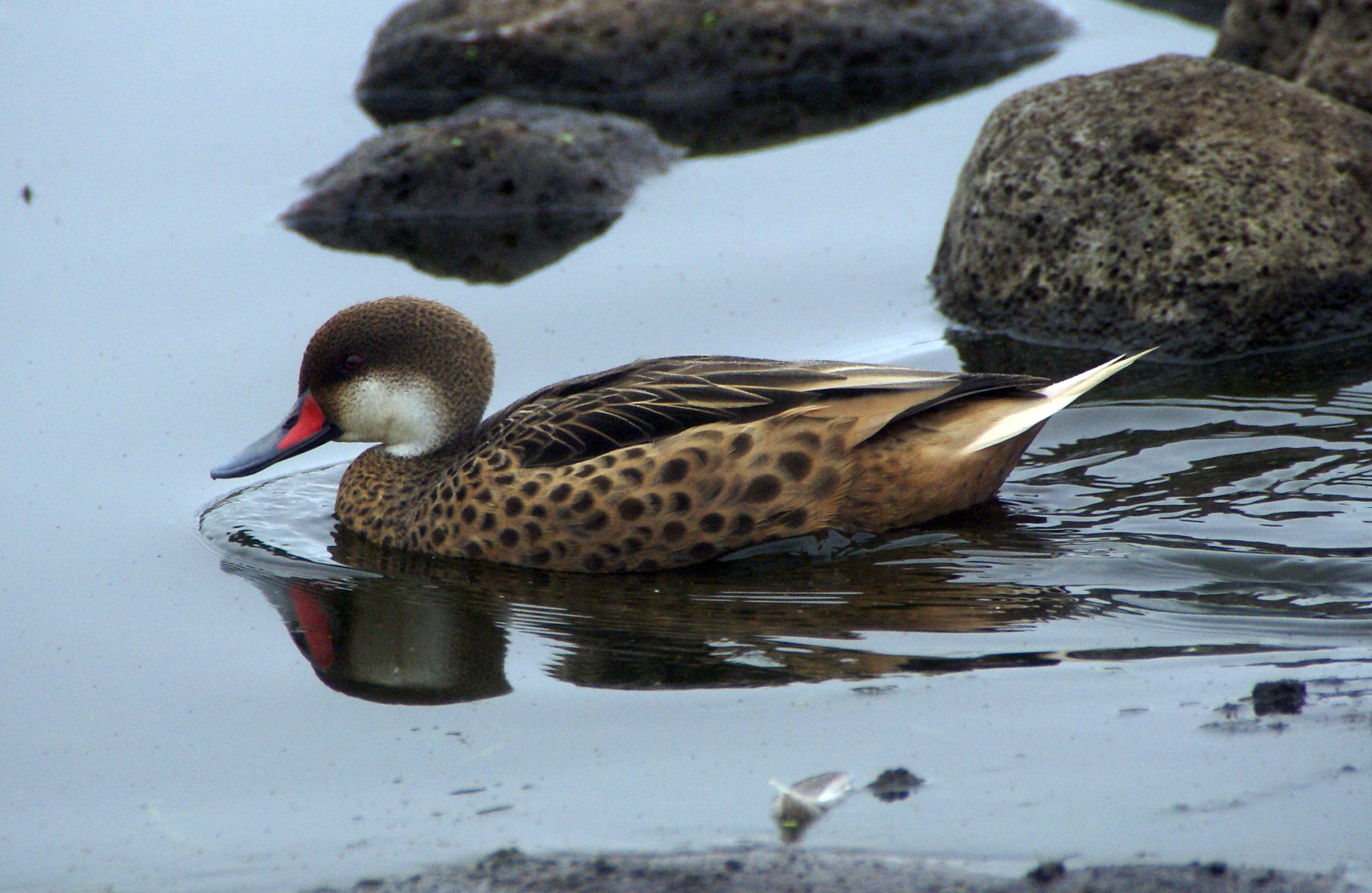 Galapagos white-cheeked pintail duck (Anas bahamensis galapagensis) - Santa Cruz highlands.